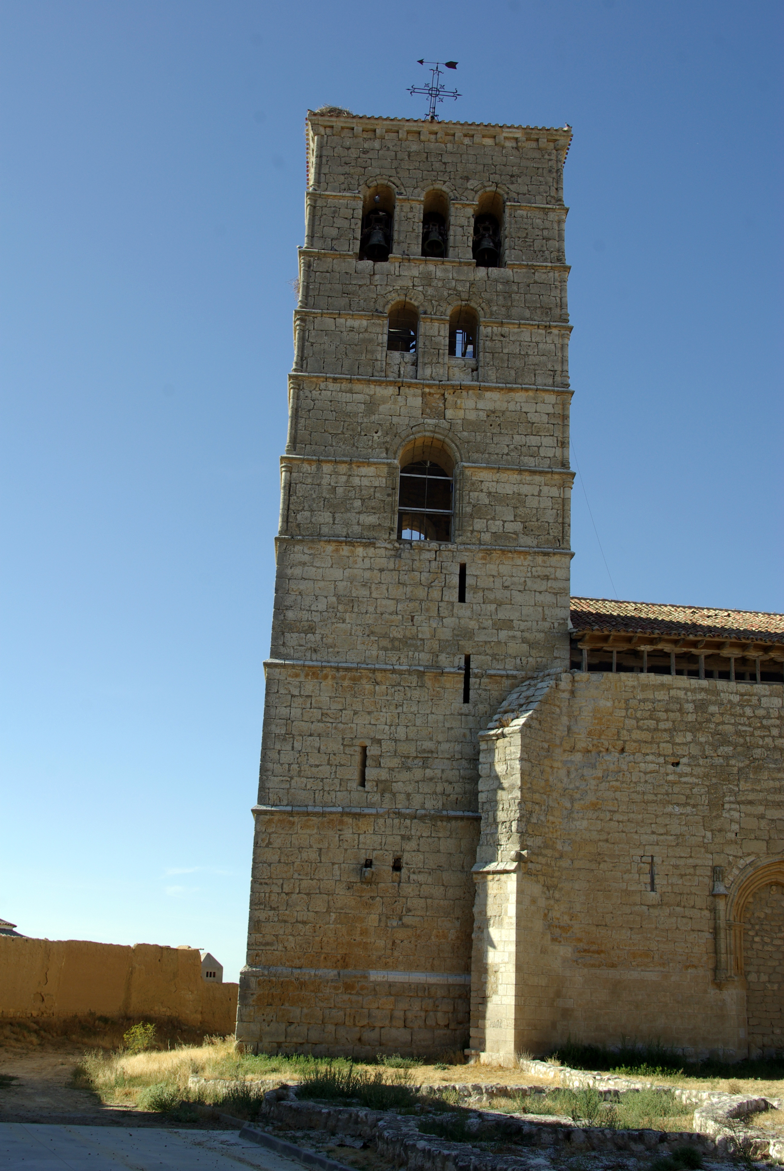 Our Lady of Castle church in Torremormojón. (Palencia, Spain)